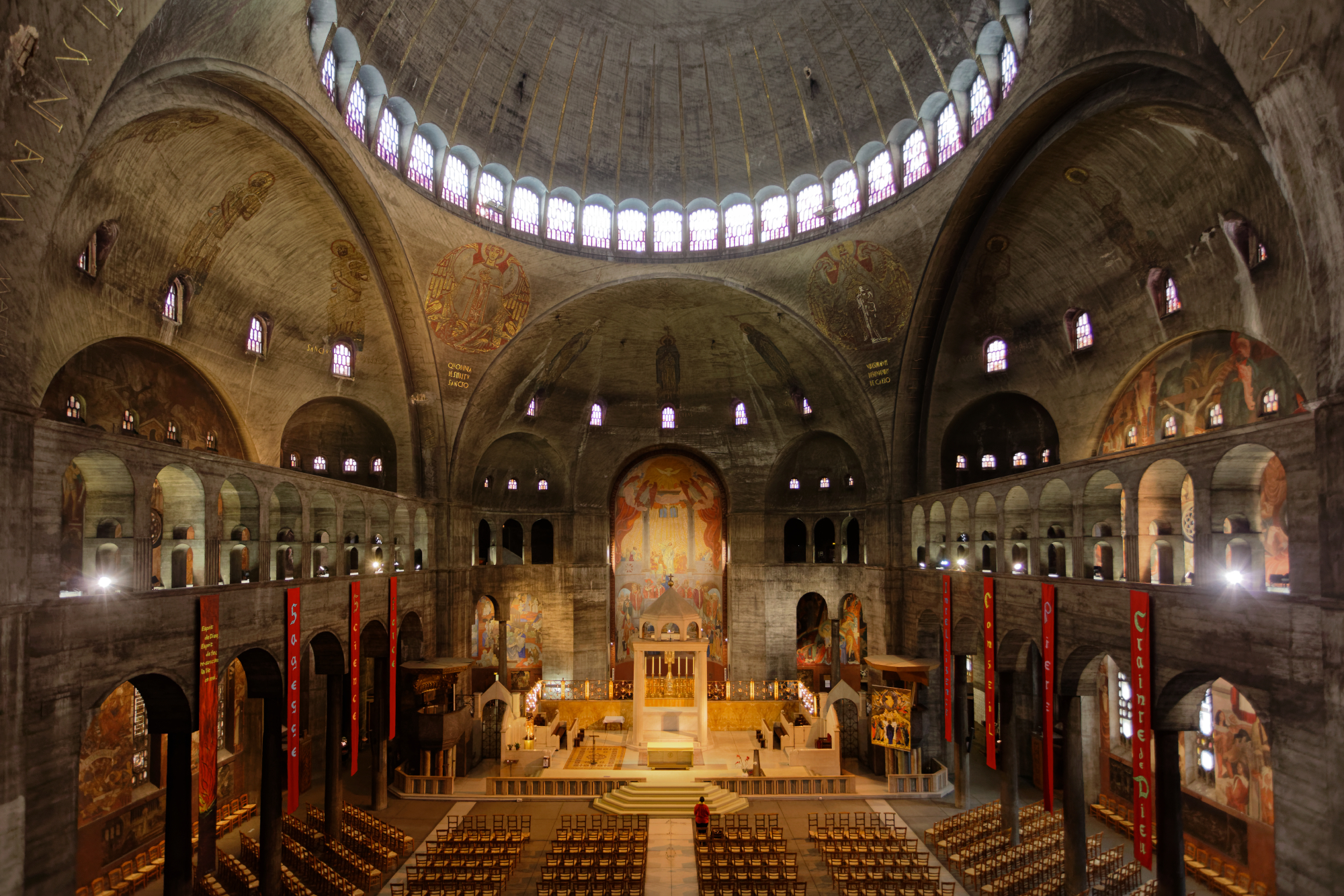 Vue intérieur de la nef, du cœur et du ciborium dominant l'autel réalisée à partir de l'élévation dans le narthex, surplombant la grande porte centrale.L'élévation se poursuit en continuité à gauche et à droite pour venir au-dessus de la chapelle axiale située dernière le cœur.Sur les côtés, cette élévation détermine les collatéraux de la nef . .